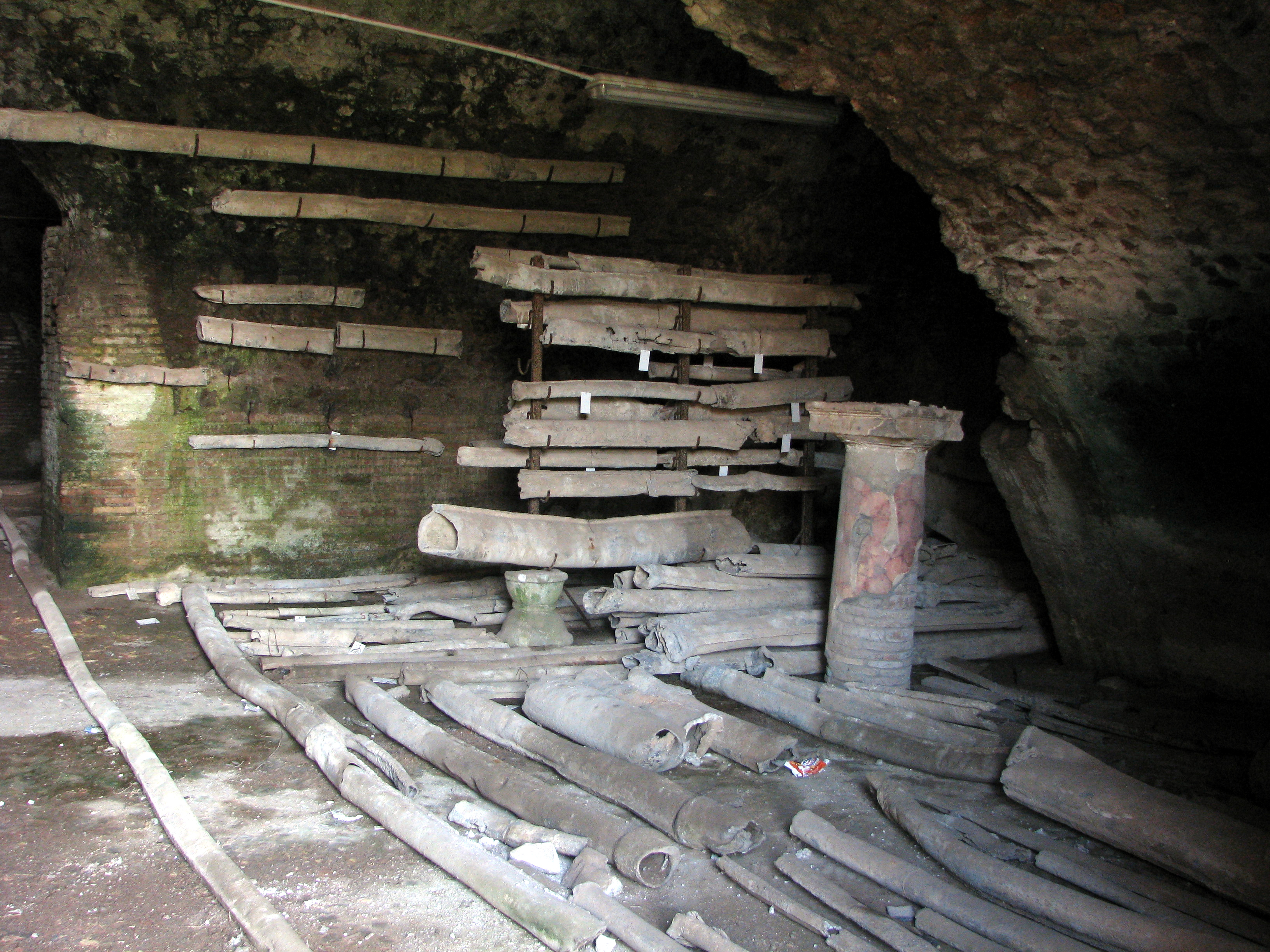 Ancient roman lead pipes in Ostia Antica